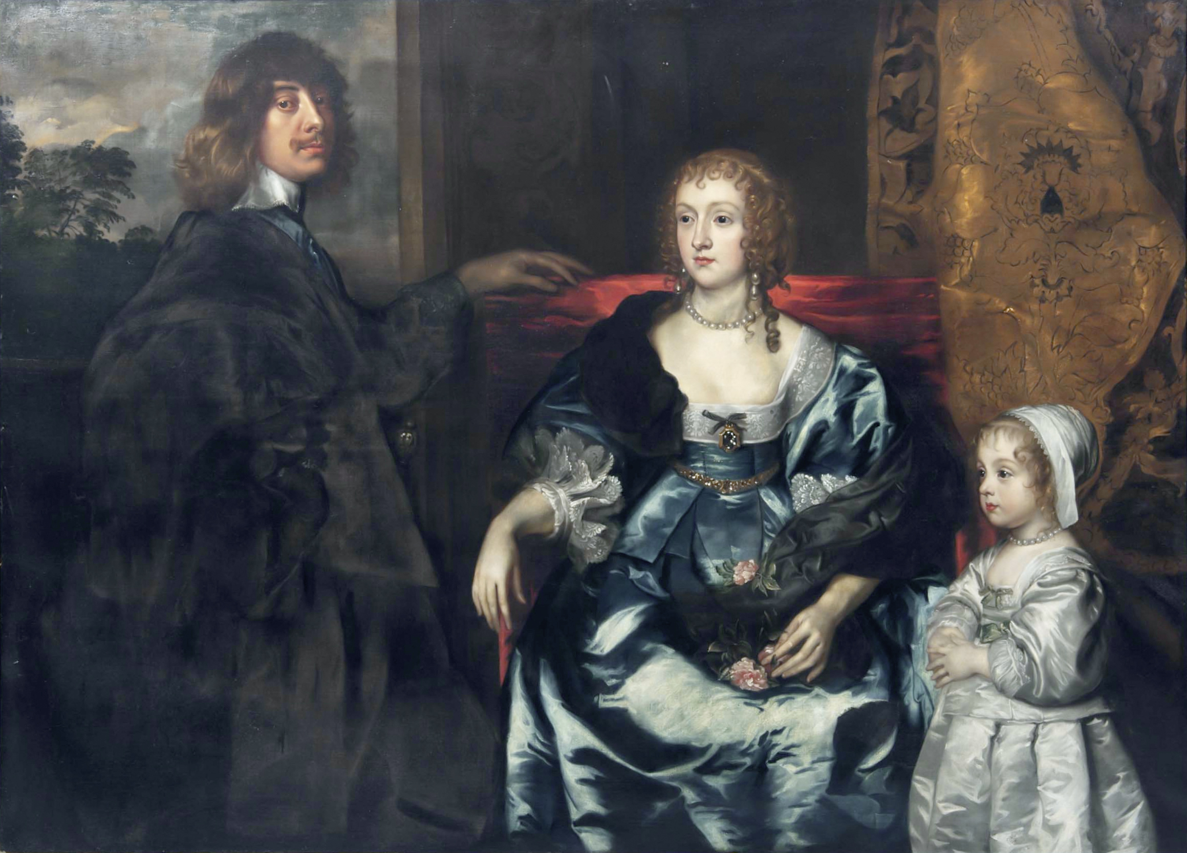 Algernon Percy, 10th Earl of Northumberland (1602-1668), his First Wife Lady Anne Cecil (d.1637), and their Daughter, Lady Catherine Percy (1630-1638) oil on canvas 132 x 180 cm after 1636